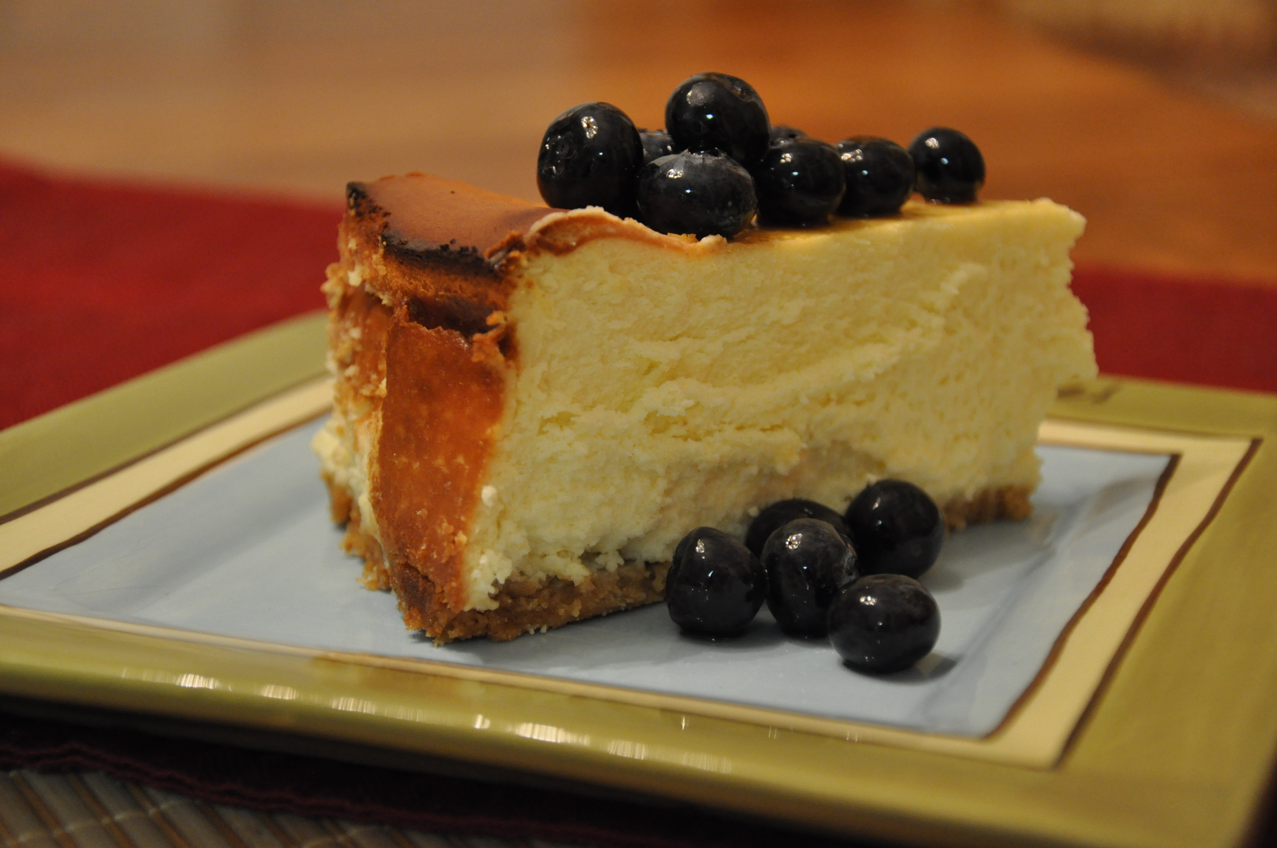 for Jonathan's birthday